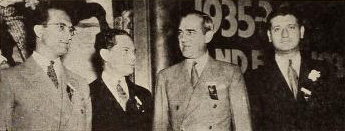 Samuel J. Briskin, Leo Spitz, Ned E. Depinet, and Jules Levy at the 1936 RKO Pictures Sales conference in New York City. Other information for an explanation of the copyright for information regarding public domain